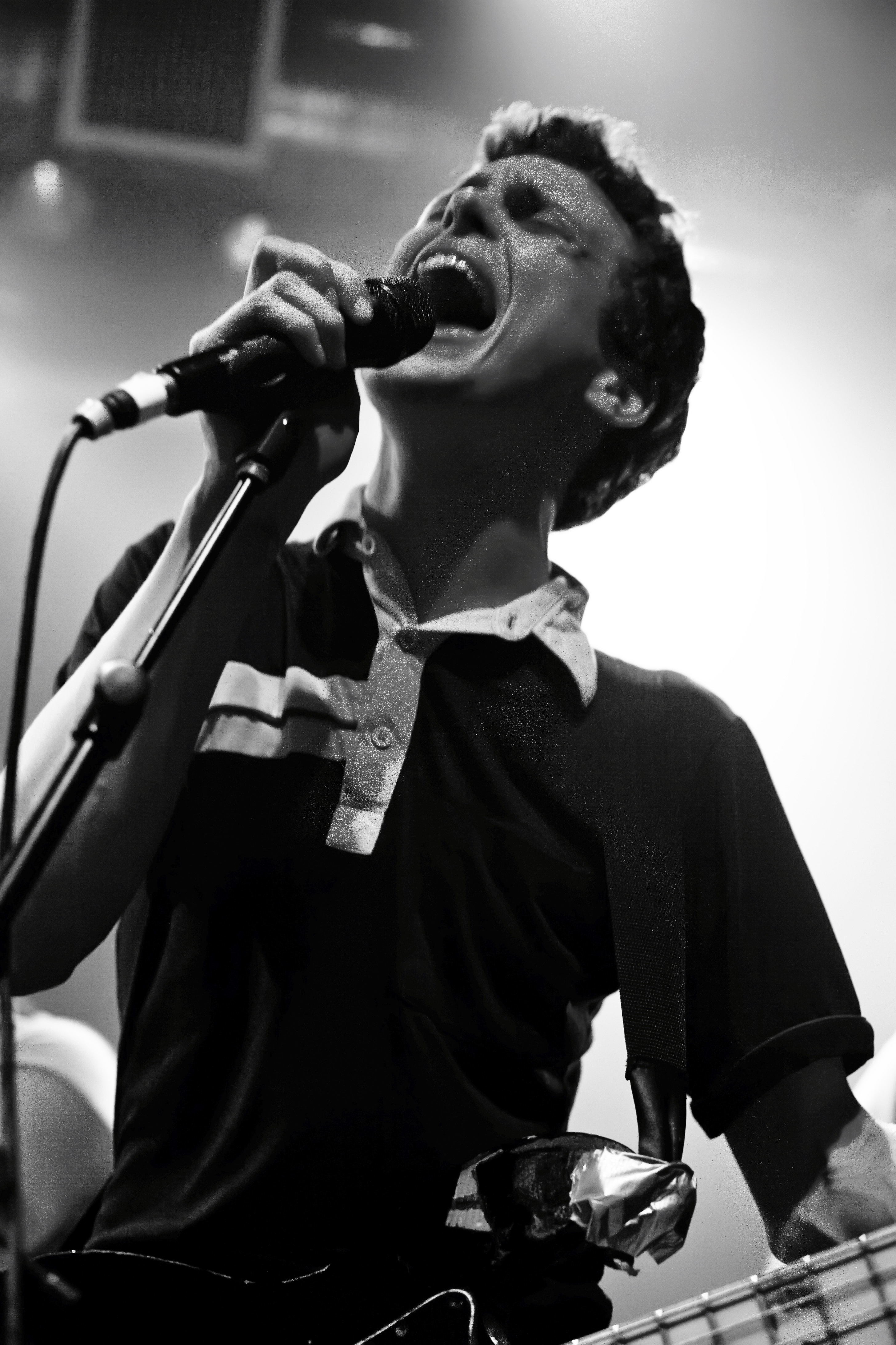 Alden Penner, formerly of The Unicorns, performing with Clues. This image was originally posted to Flickr by Fenchurch! at It was reviewed on 29 March 2009 by FlickreviewR and was confirmed to be licensed under the terms of the cc-by-sa-2.0.